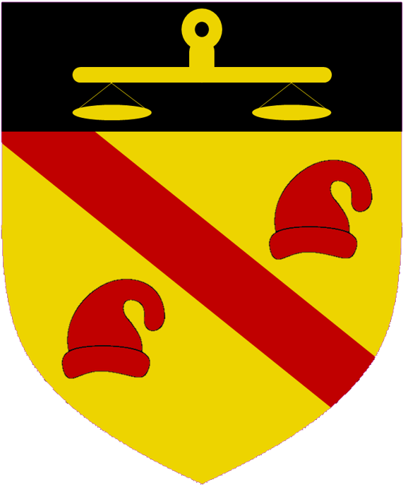 Shield of arms of The Viscount Samuel